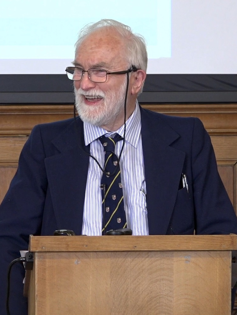 Professor Andrew F. Walls at the Yale-Edinburgh Conference